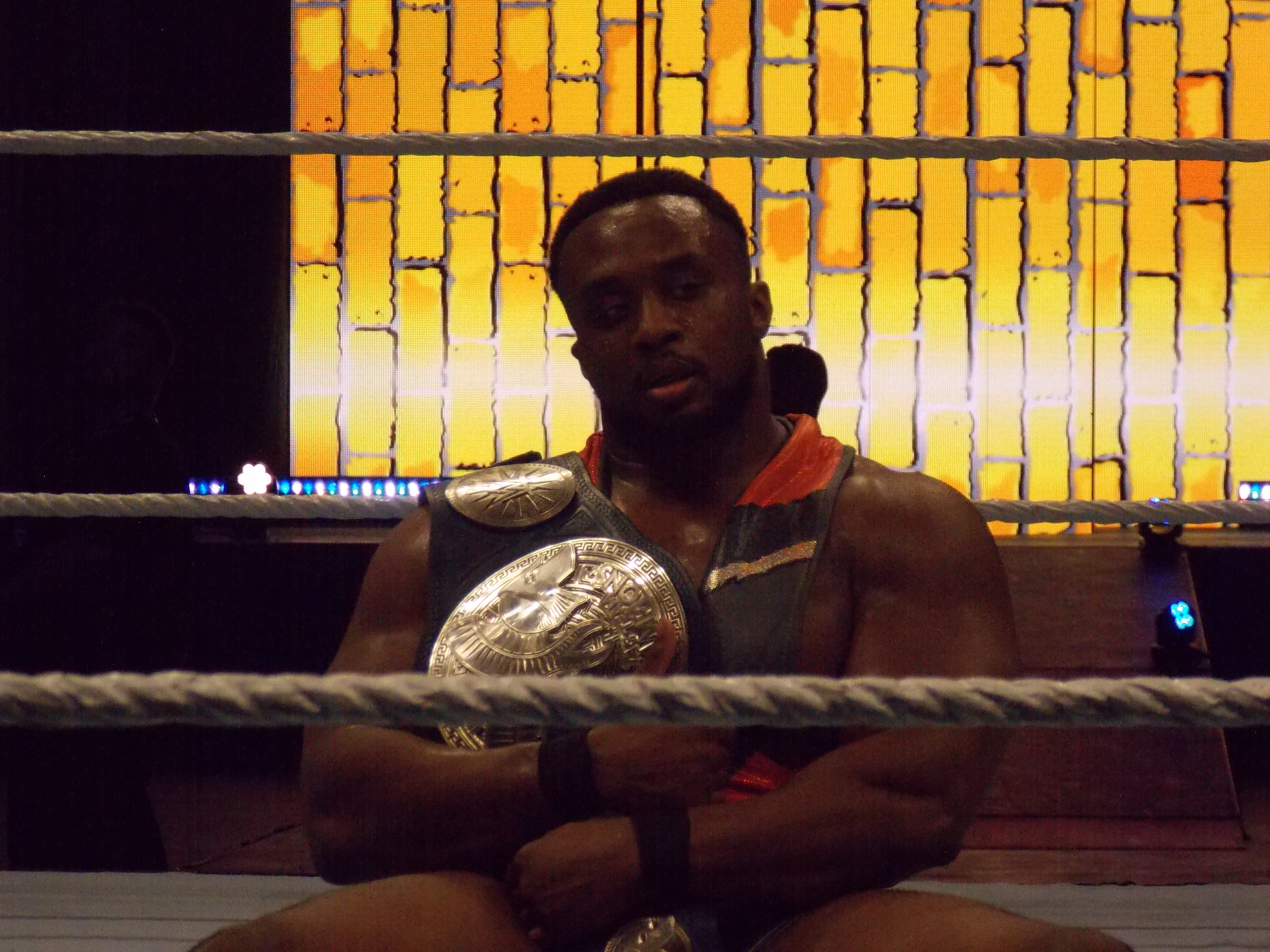 Big E at a WWE Live Event House Show in Omaha, Nebraska, USA on Sunday, August 18, 2019